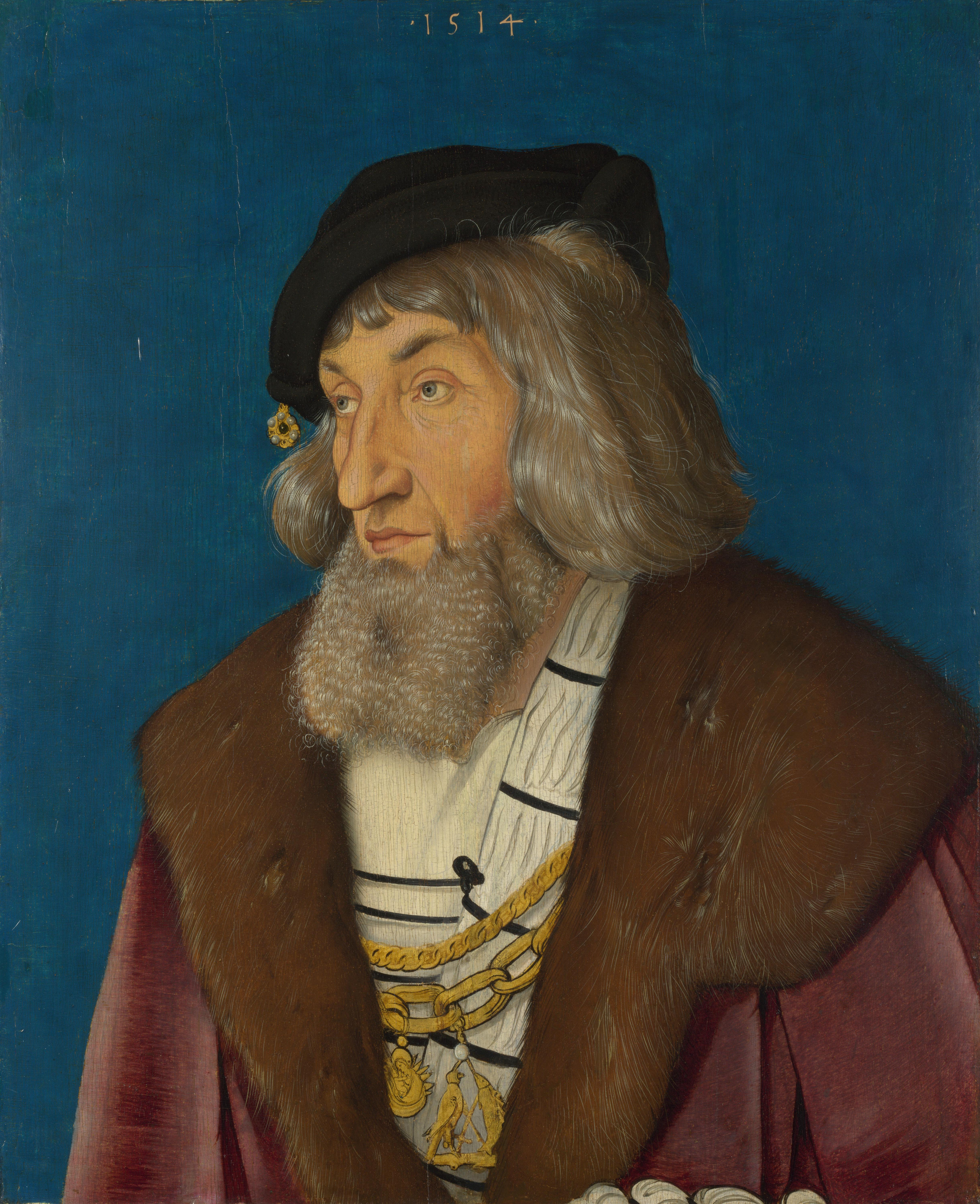 "This bold portrait is of an unknown sitter. The fur collar, the jewel on the cap and the heavy gold chains indicate that he was a man of some wealth. The two badges on the chain can be identified and suggest that he may have been a Swabian and was probably of noble birth. At the bottom of the portrait the top of his puffed white sleeve is just visible. It is probable that the picture has been cut down, and originally showed more of the arm. Baldung is thought to have worked in Albrecht Dürer's workshop; his portraits tend to be less psychologically penetrating than Dürer's. In this work visual display is emphasised. The sweeping lines of hair and curling beard are set off by the flat expanse of face and shirt. The whole is electrified by the bold background colour. The badge showing the Virgin and Child is that of the Order of Our Lady of the Swan. This confraternity, founded by the Elector Frederick II of Brandenburg, admitted only those of noble birth. The other badge belongs to the Fish and Falcon jousting company of Swabia, a knightly organisation." (Citation from National Gallery)